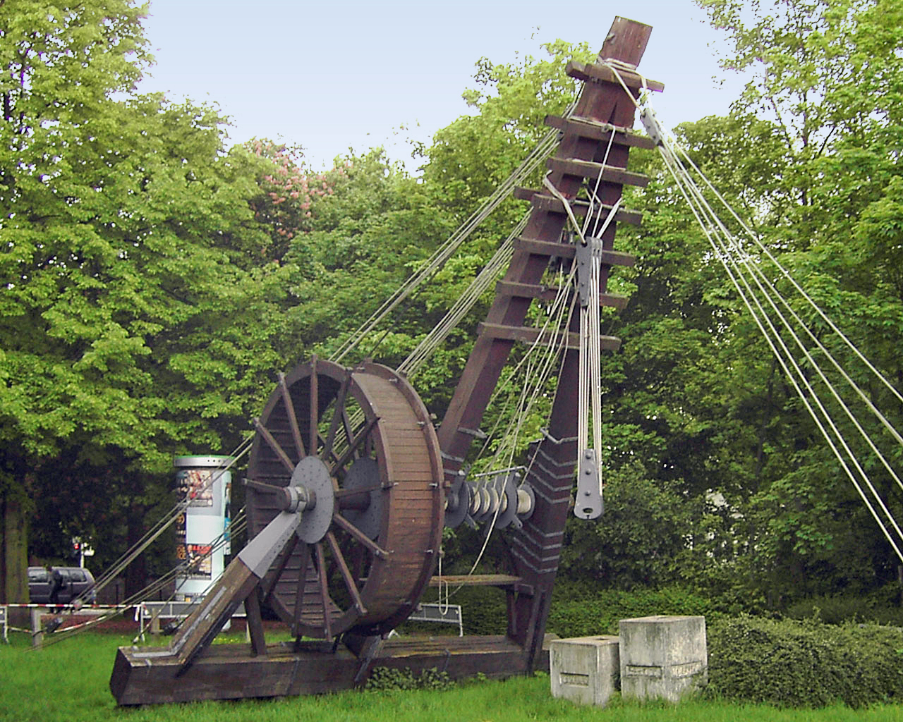 Reconstruction of a Roman crane